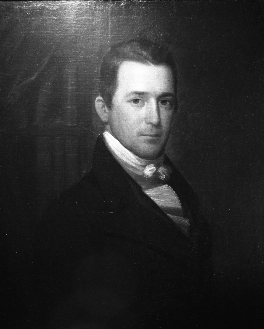 From General Negative Collection, North Carolina State Archives, Raleigh, NC.